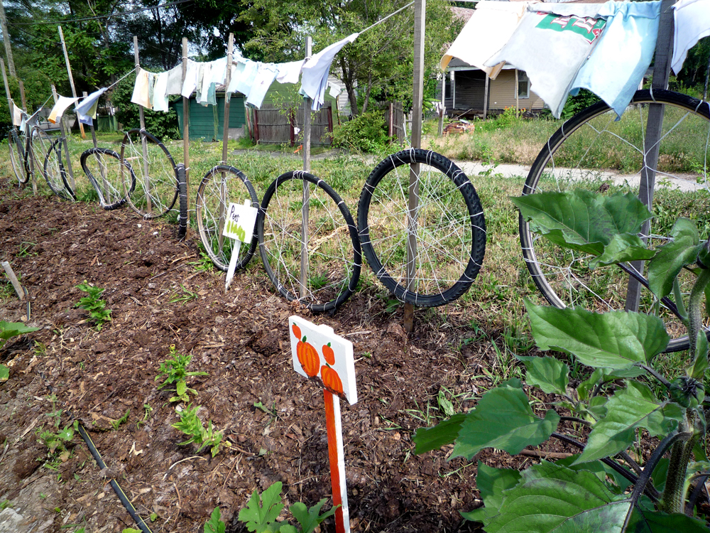 a combined fence, recycled-tire trellis and clothesline at the Earth Works community garden in Detroit. Posted in Try This at Home: Join a community garden.